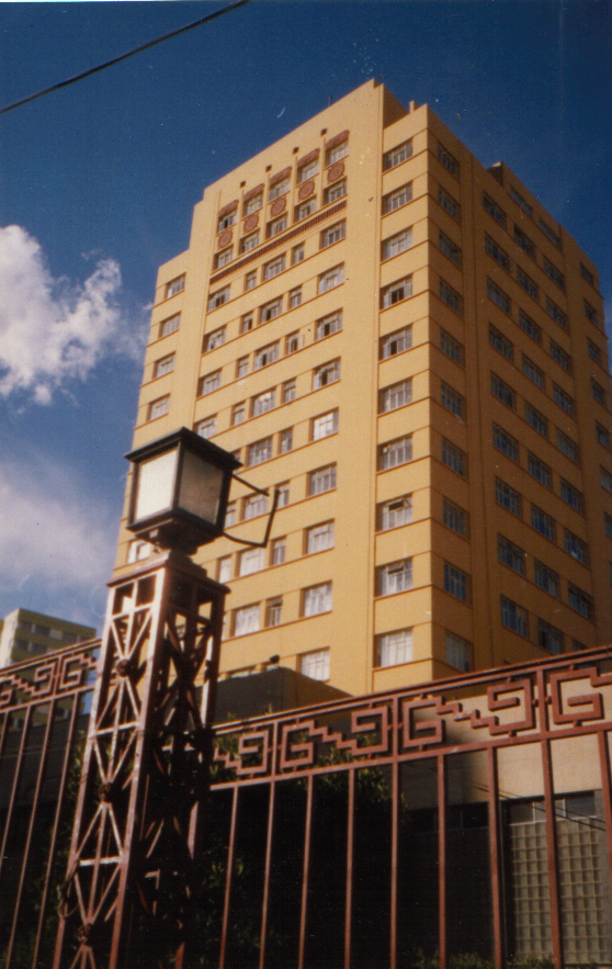 foto del edificio de la UMSA.